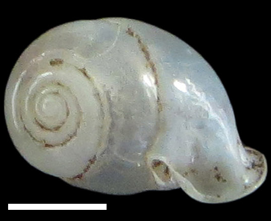 Photo of an oblique apical view of a shell of holotype of Perrottetia hongthinhae (holotype, VNMN_IZ 000.000.153). Locality: Vietnam, Lai Chau Province, Nam Loong Commune, Lai Chau City, 22°25’16”N, 103°22’25”E, 1,226 m; 12.07.2015). Scale bar is 2 mm.